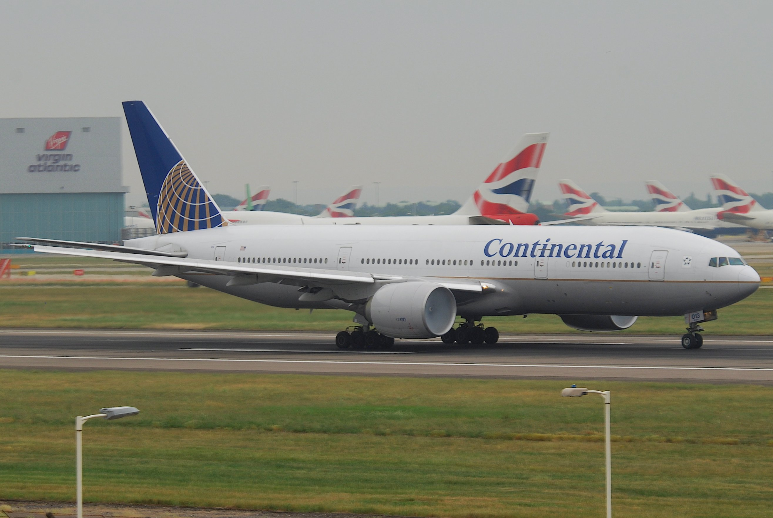 Continental Airlines Boeing 777-224ER; N78013@LHR;06.06.2010/577bx